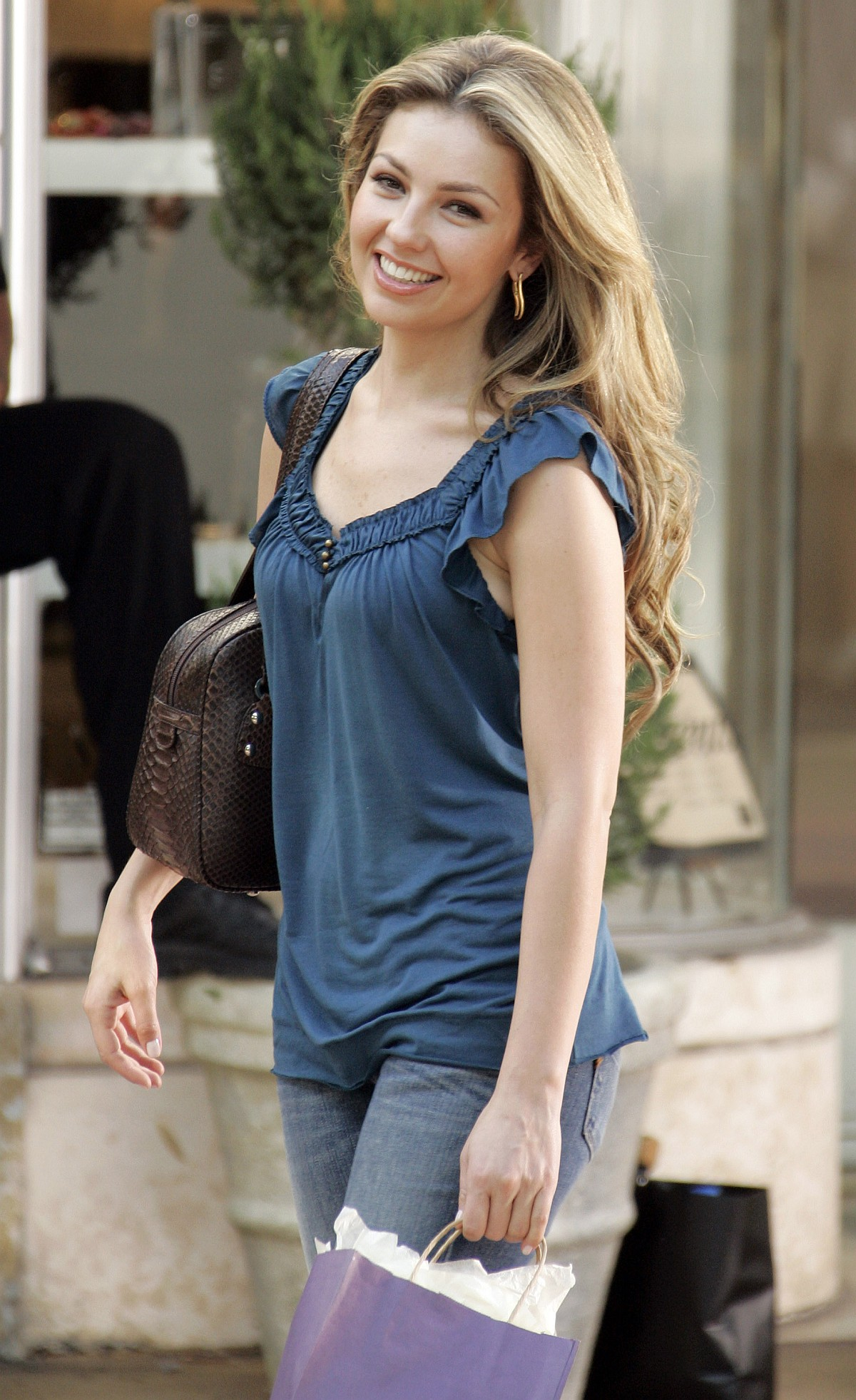 Thalía at a TV commercial video shoot (November 9, 2006)